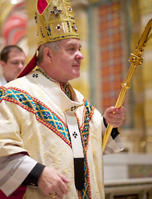 Archbishop Robert J. Carlson exiting the Cathedral Basilica of Saint Louis